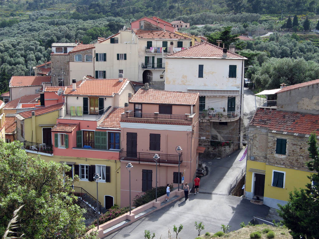 Part of the village of Lingueglietta, as seen from the ruins of its castle, in Liguria, Italy